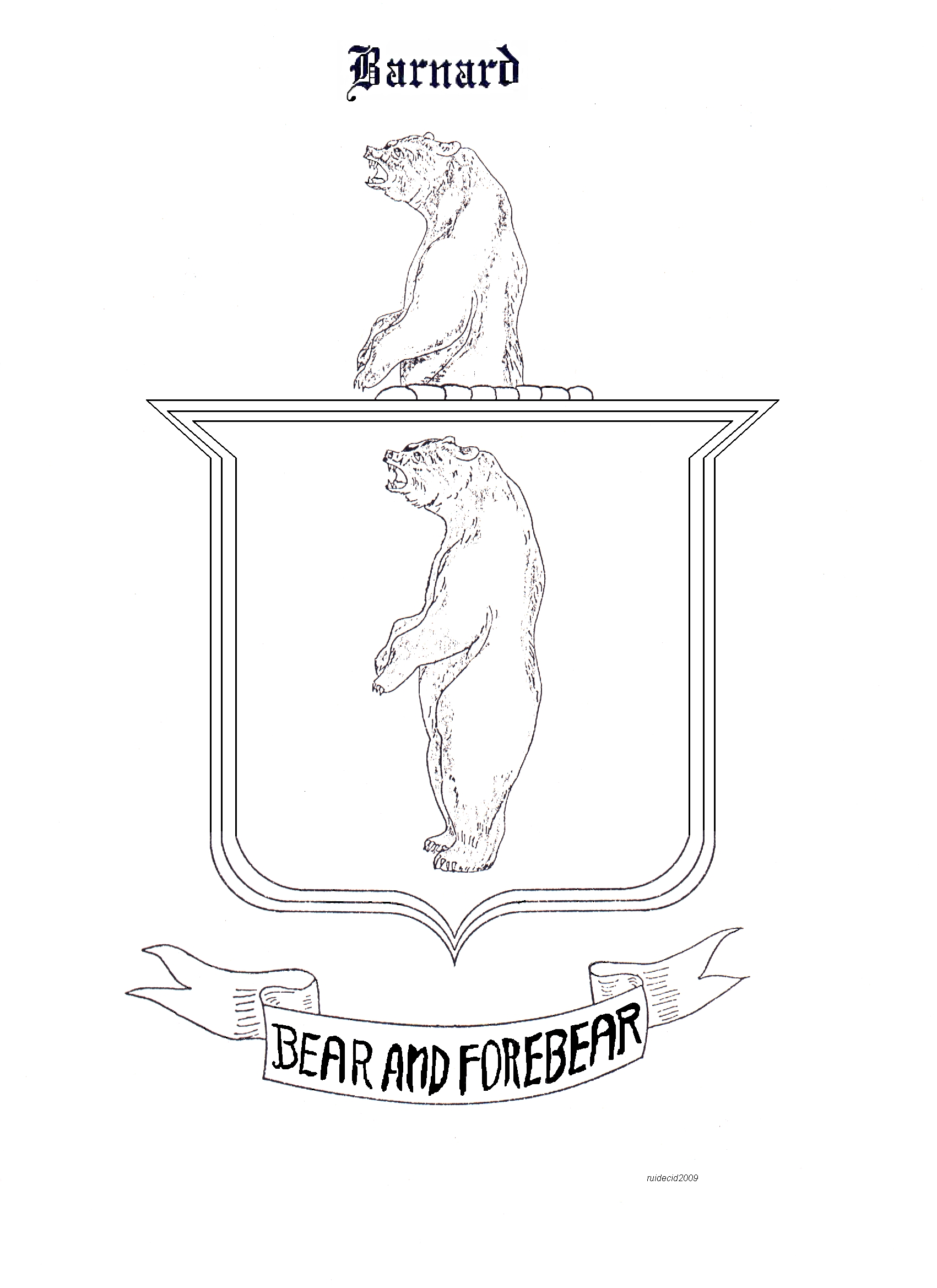 Originally this shield was designed by Guy Barnard, although he has undergone minor modifications, he still retains in essence the important symbols such as: A bear brown in natural color on a silver shield with the wave in red- finds half a brown bear in natural color and below the shield a ribbon with the slogan "BEAR AND FOREBEAR" "'which literally translates in the symbolic form means "Force and resignation" "'in front of the family fracture that occurred in 1340.